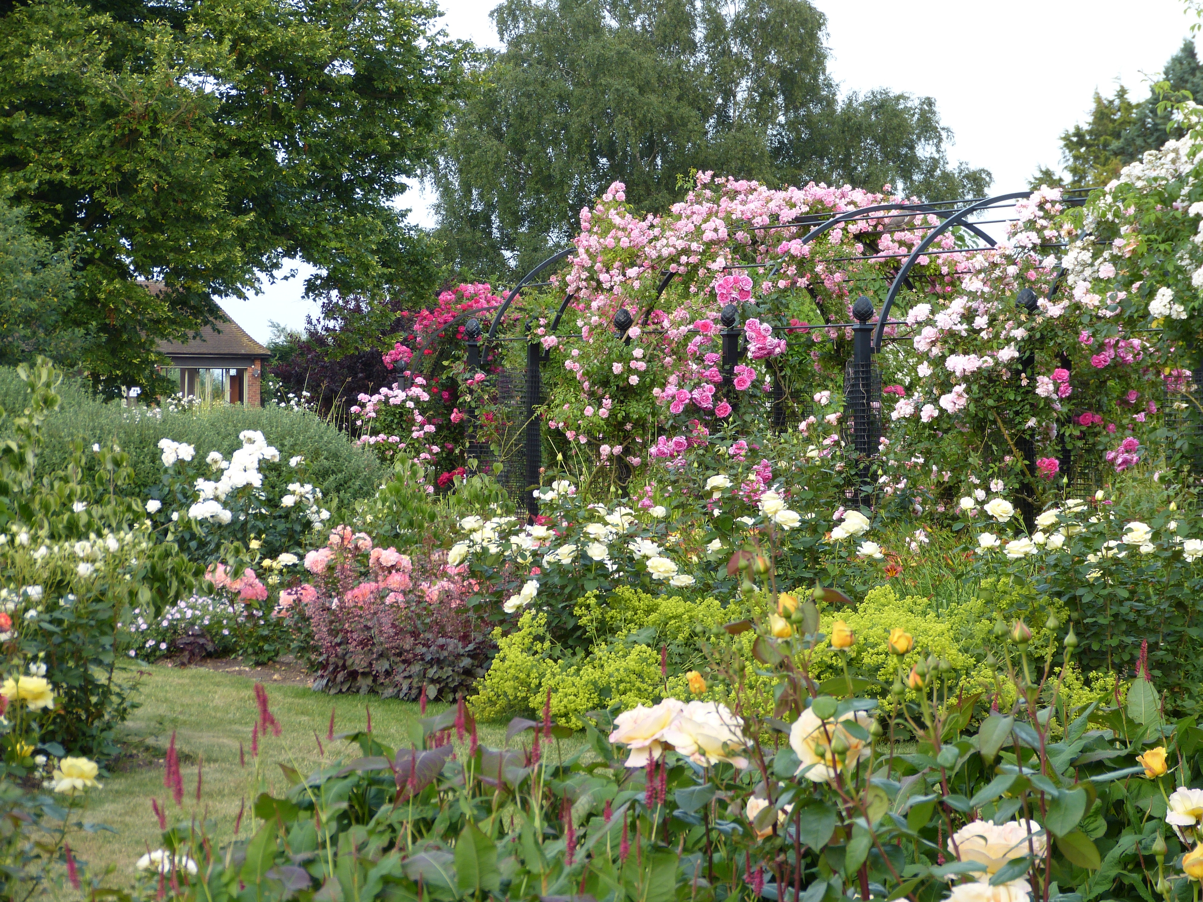 Photograph of Gardens of the Rose in St.Albans